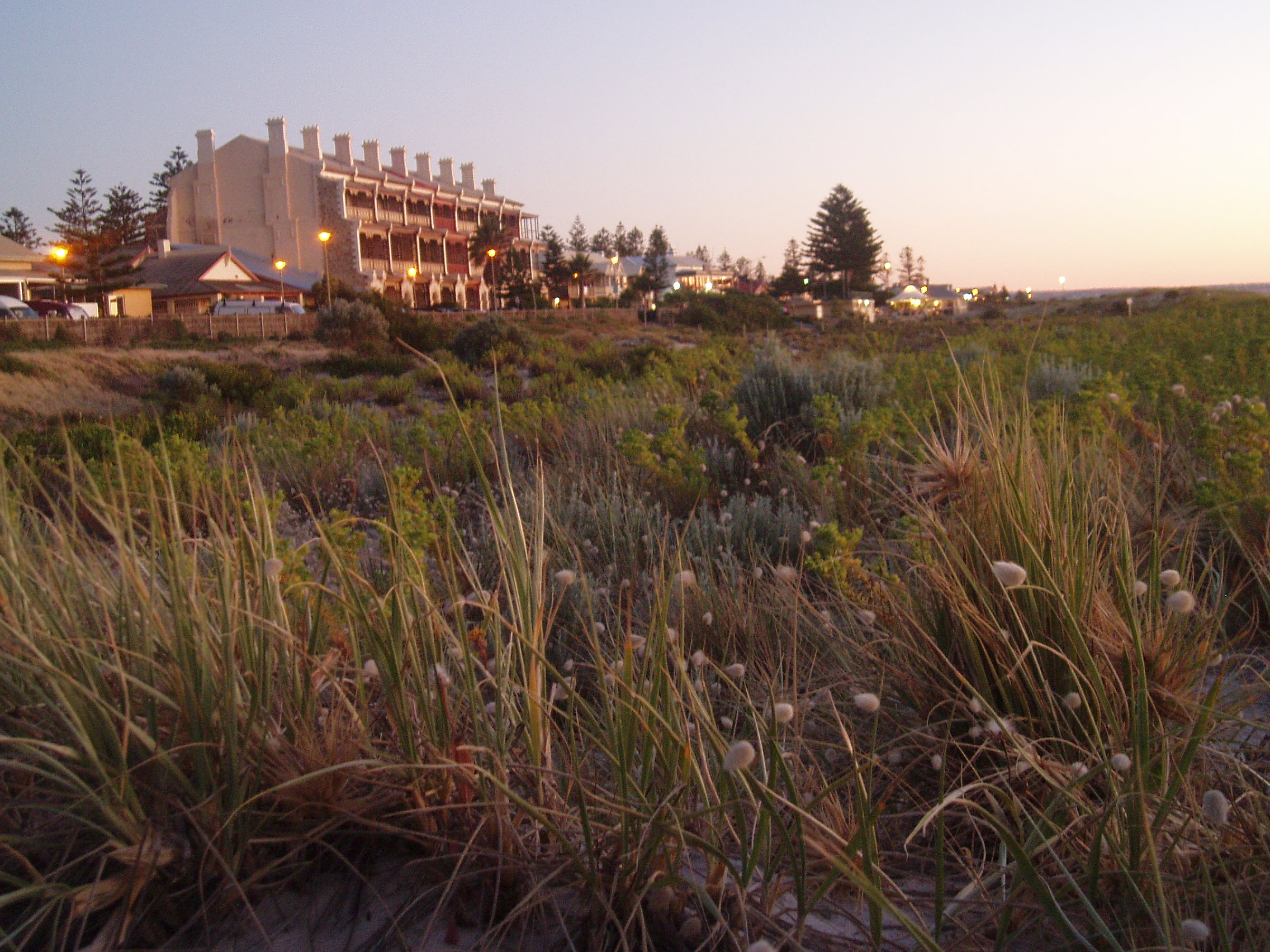 View southeast from beach of Grange's seafront buildings, City of Charles Sturt, South Australia. Photography by User:Donama, 2006